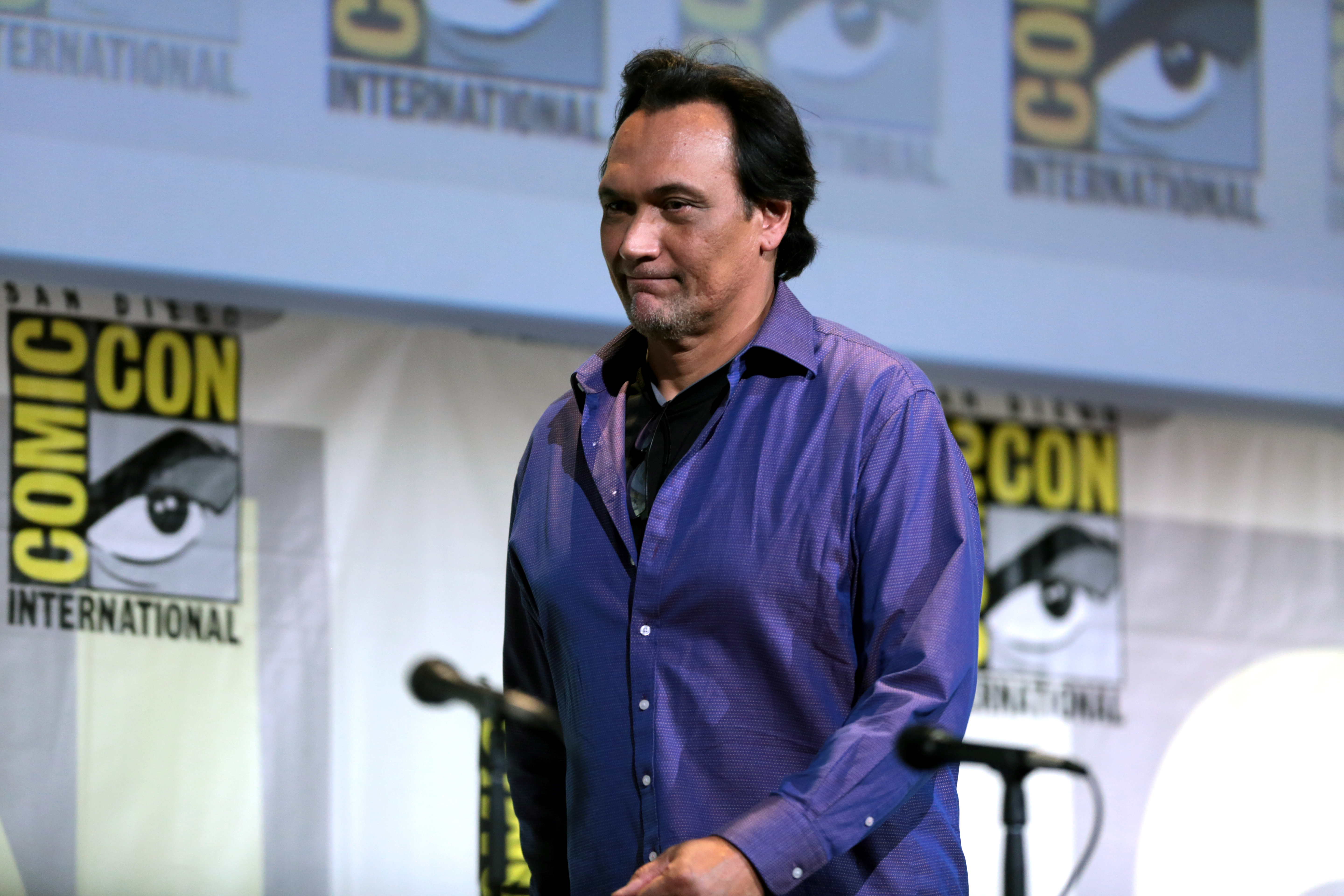 Jimmy Smits speaking at the 2016 San Diego Comic Con International, for "24: Legacy", at the San Diego Convention Center in San Diego, California.